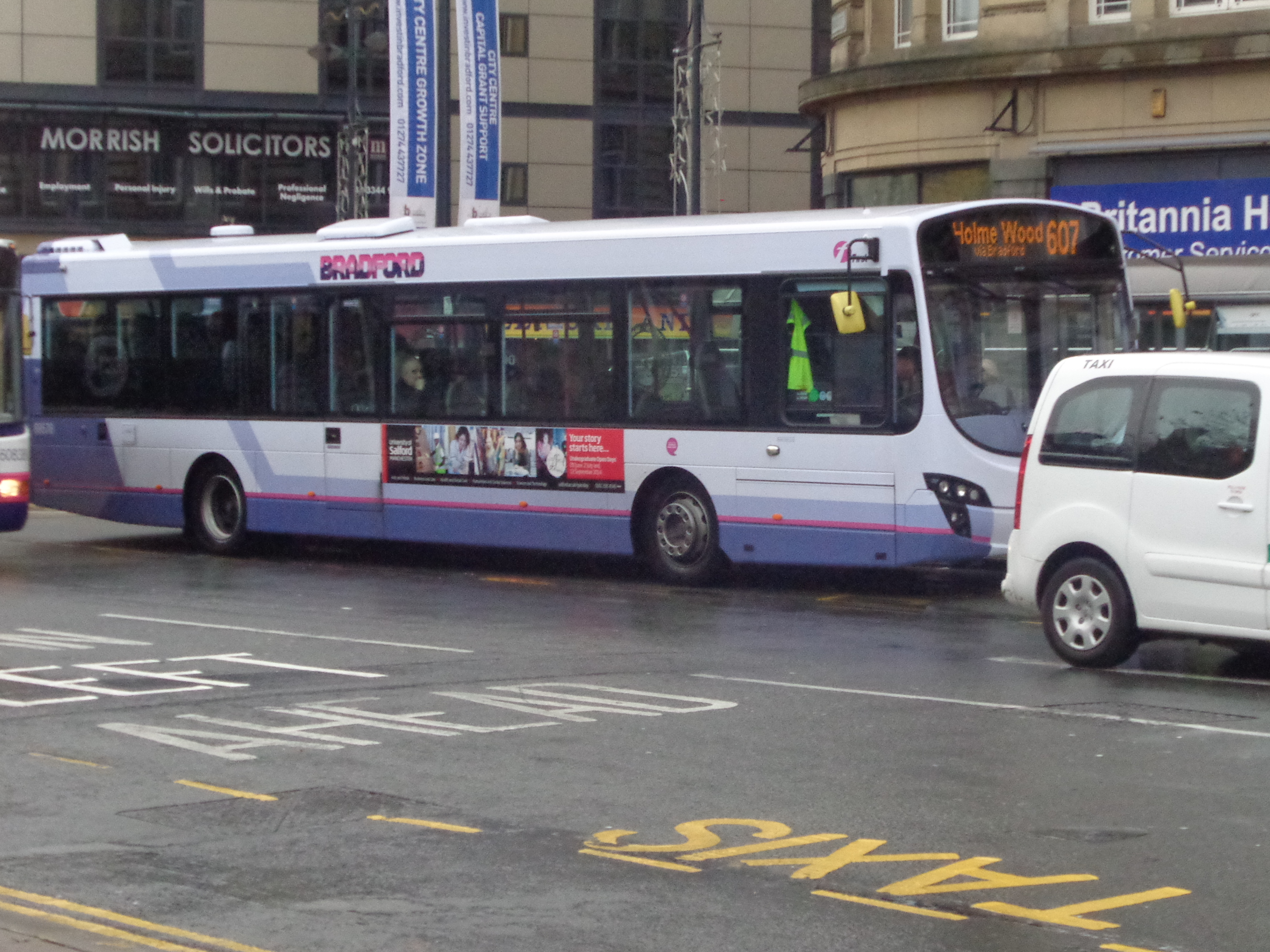 First Bradford bus, Bridge Street, Bradford, West Yorkshire. Taken on the afternoon of Saturday the 8th of November 2014.